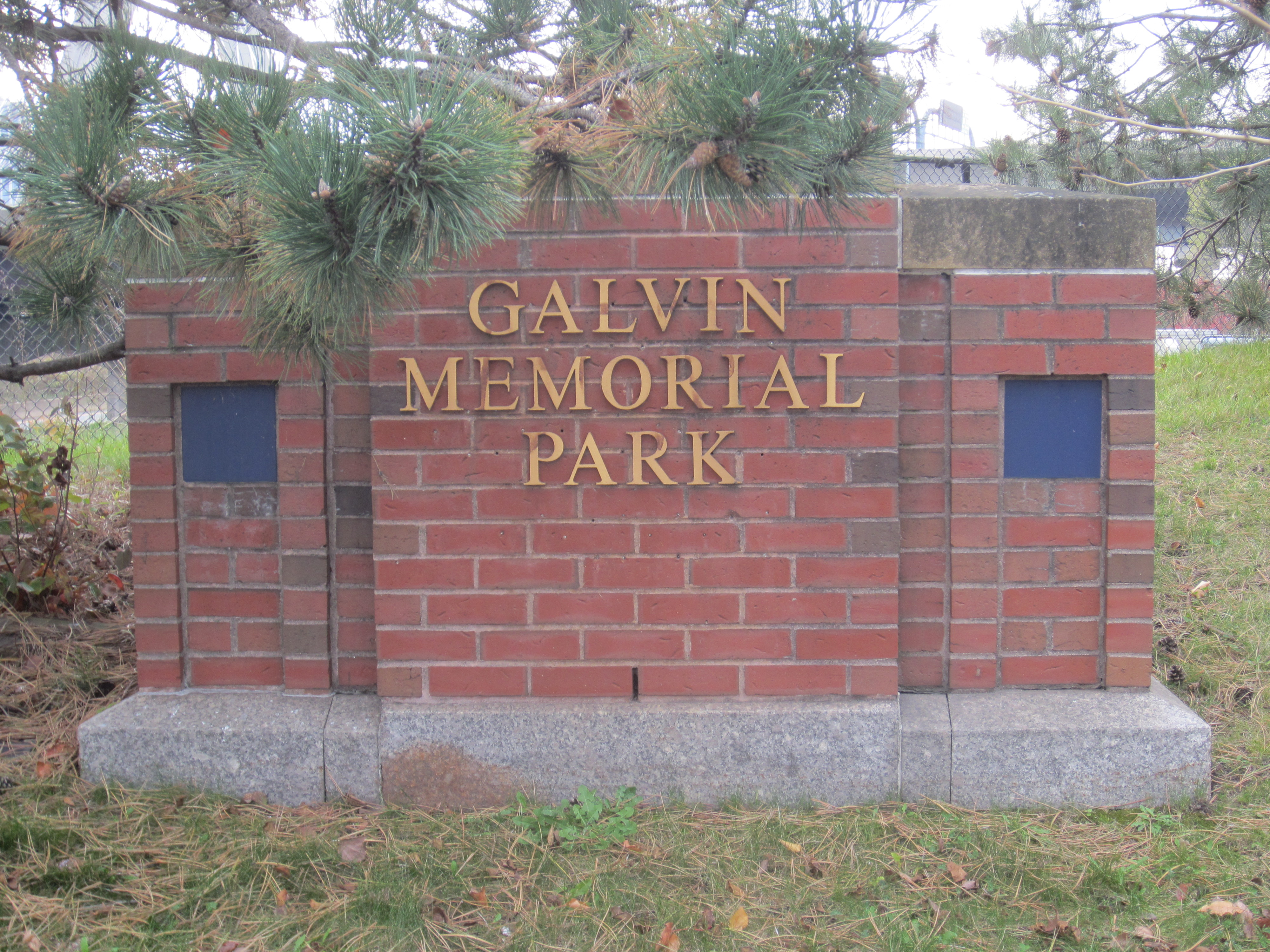 Boston (2019)